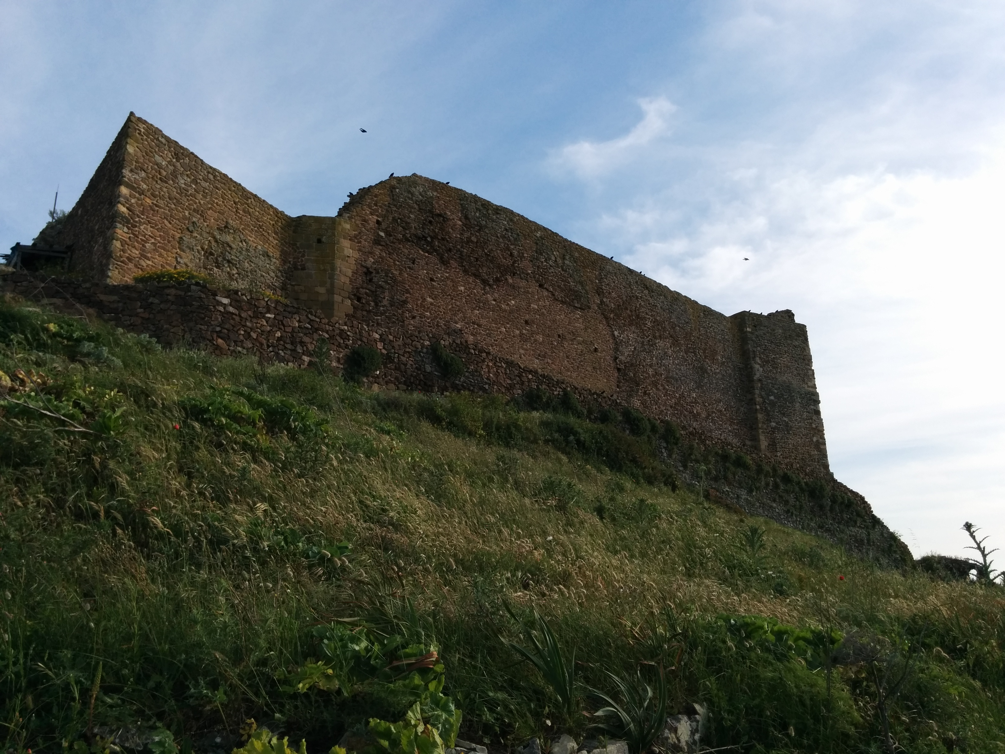 Medieval Castle of Monreale in Sardara